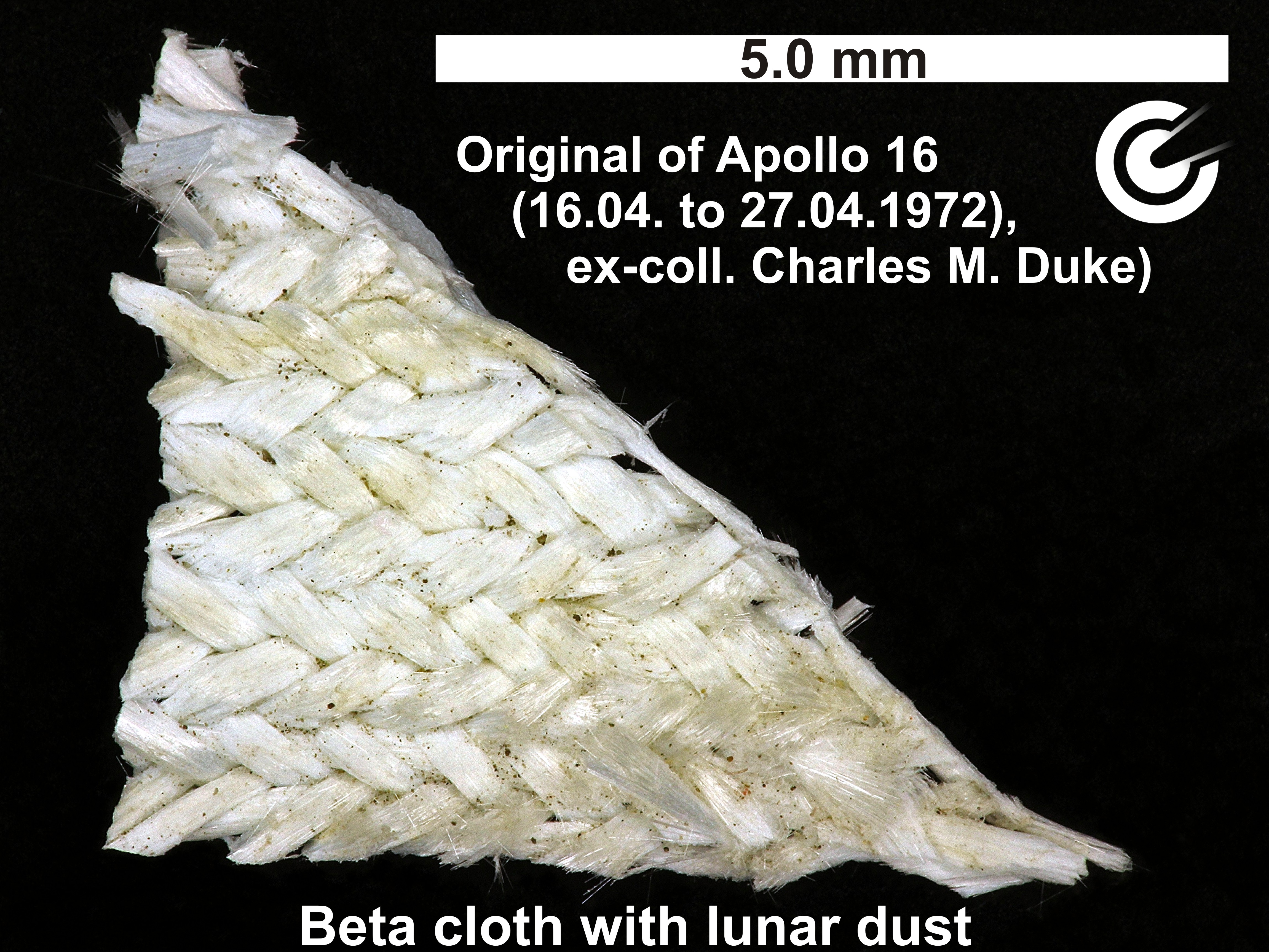 Beta cloth with original lunar dust (Apollo 16)